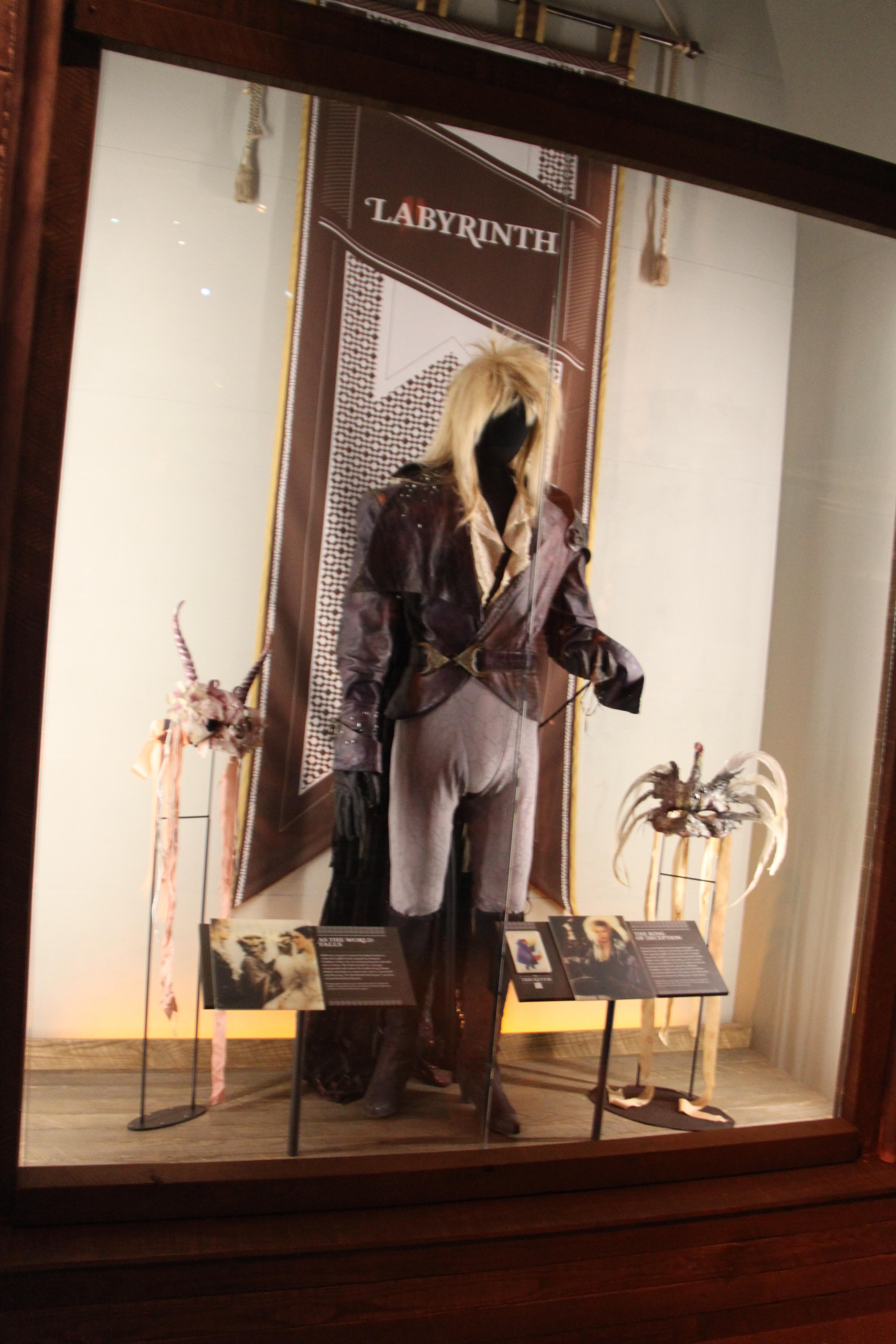 David Bowie’s costume as Jareth, the Goblin King and masks from the film Labyrinth displayed at Fantasy: Worlds of Myth and Magic, Experience Music Project/Science Fiction Hall of Fame, Seattle.